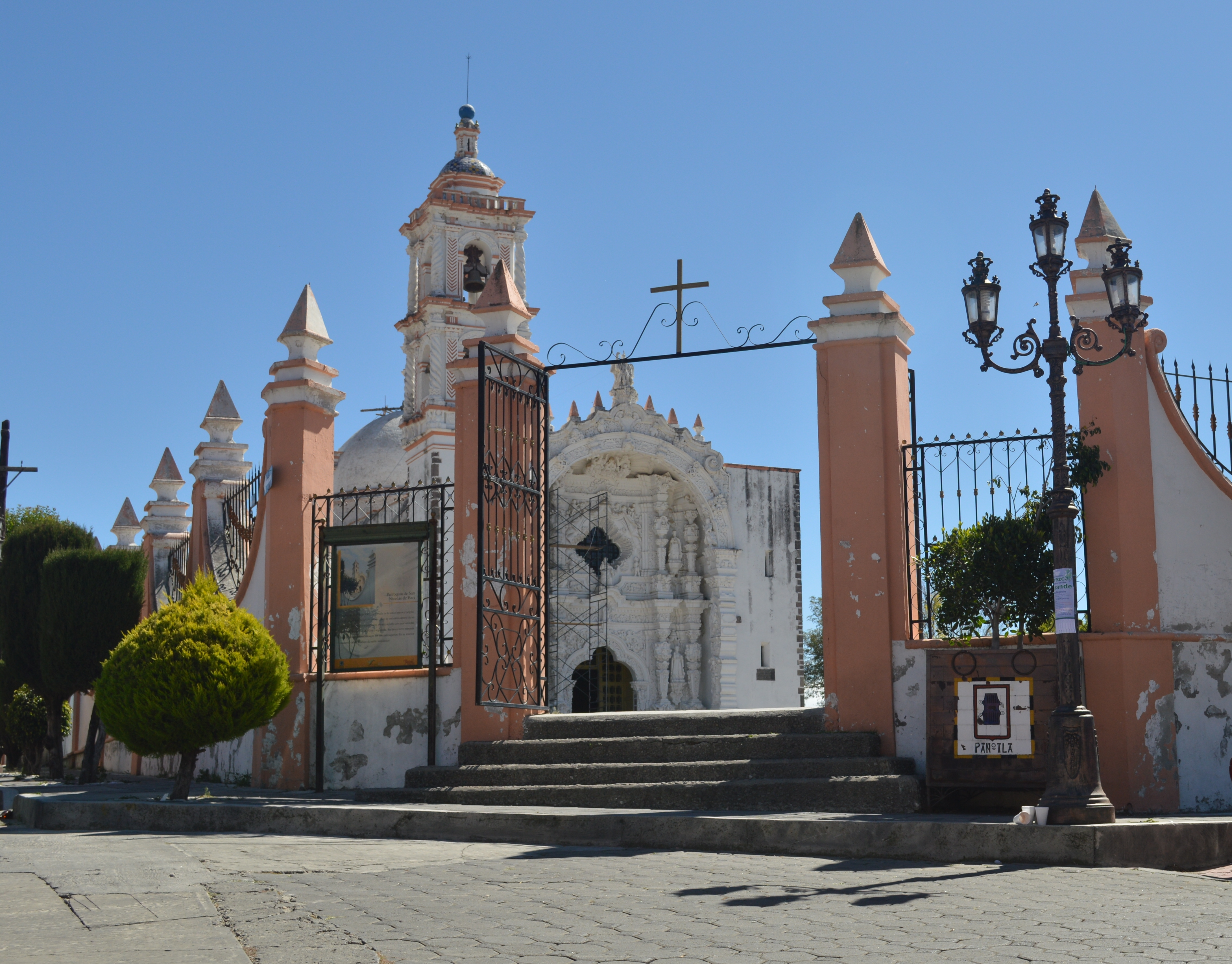 View of the San Nicolás de Bari church in Panotla, Tlaxcala, Mexico